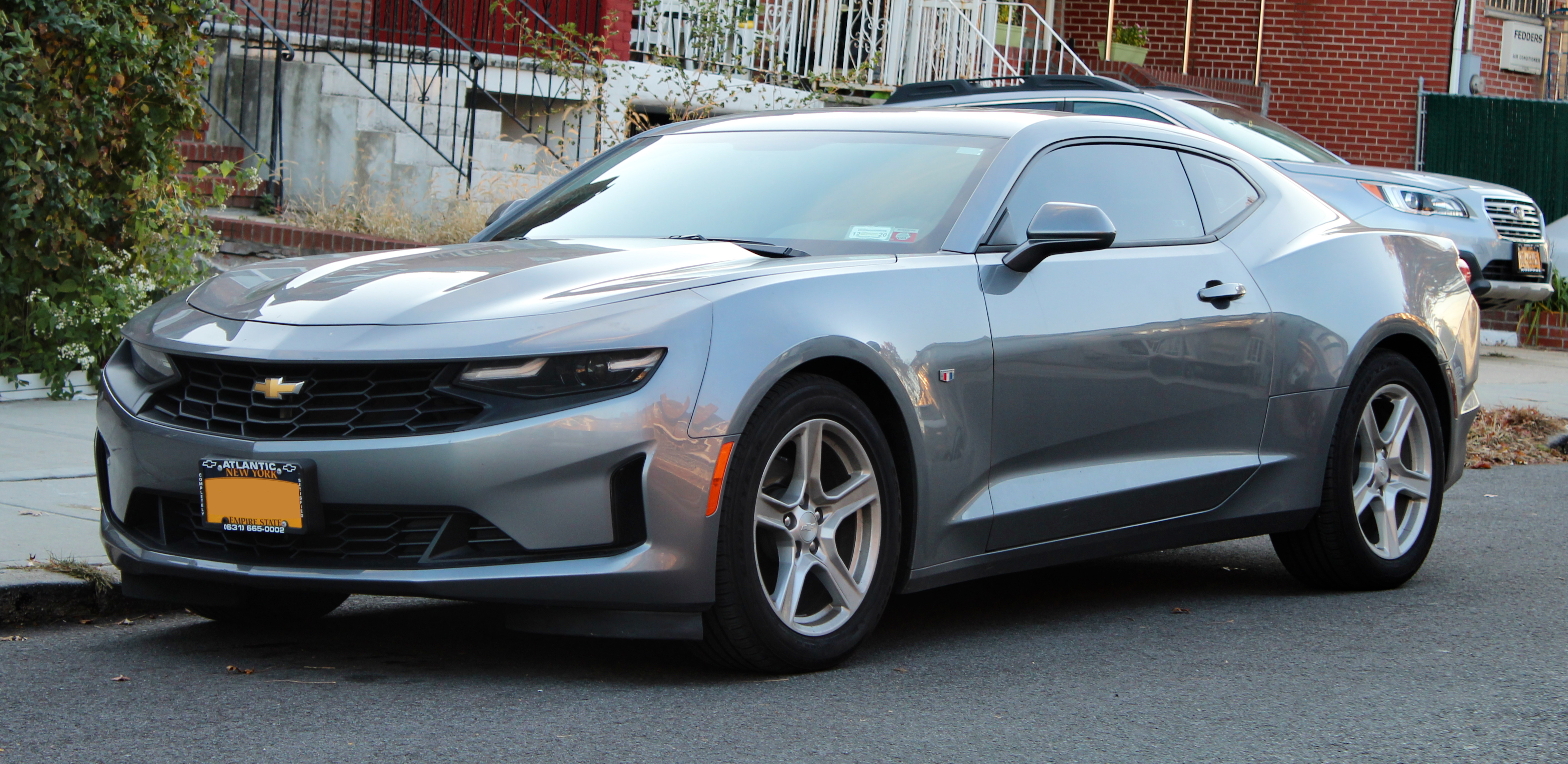 A 2019 Chevrolet Camaro photographed in Kew Gardens Hills, Queens, New York, USA